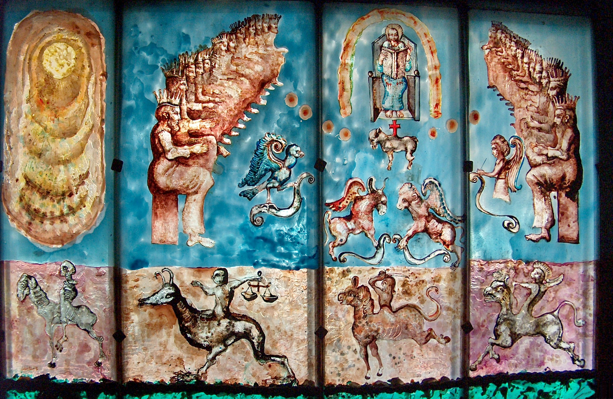 a stained glass of Jan Lebenstein in the Pallottines' chapel in Paris